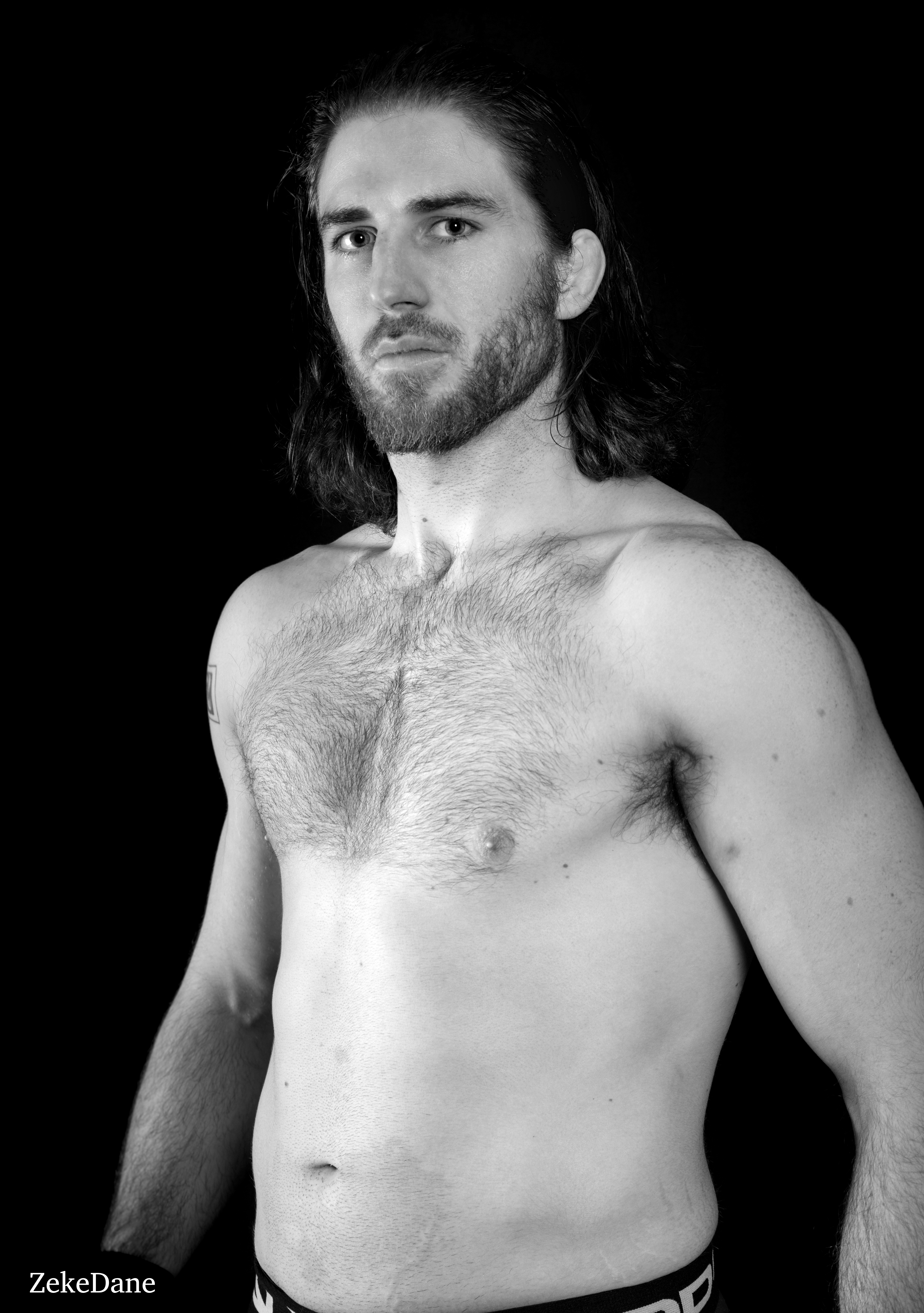 Chuck O'Neil portrait